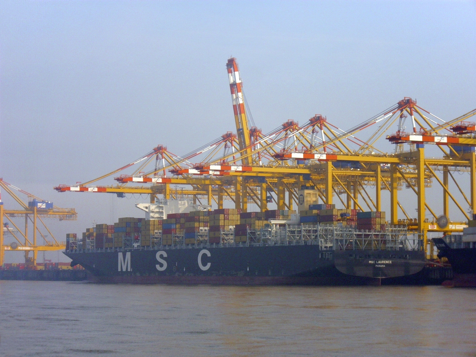 The container ship MSC Laurence at the container terminal Bremerhaven, Germany